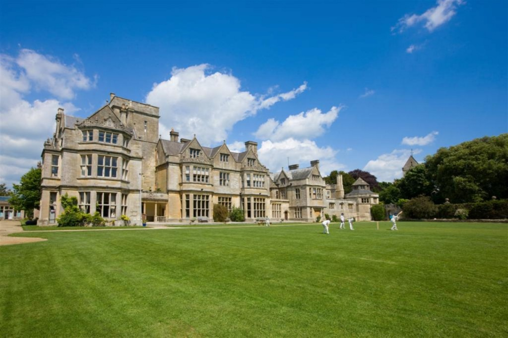 Hatherop Castle School, Gloucestershire. Hatherop Castle doubled as "Danvers Retreat" in the Father Brown episode "The Maddest of All" (2014).